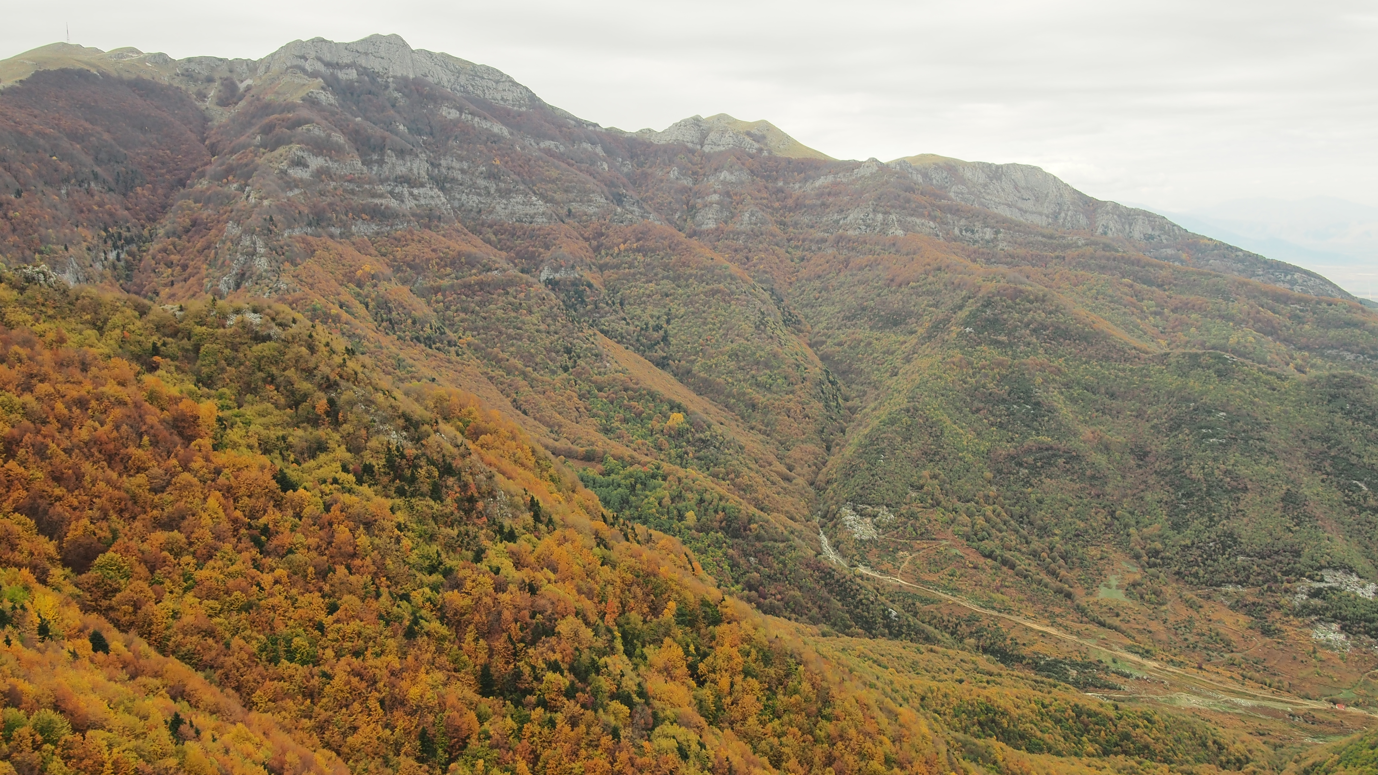 This is a photography of Natura 2000 protected area with ID GR1150005